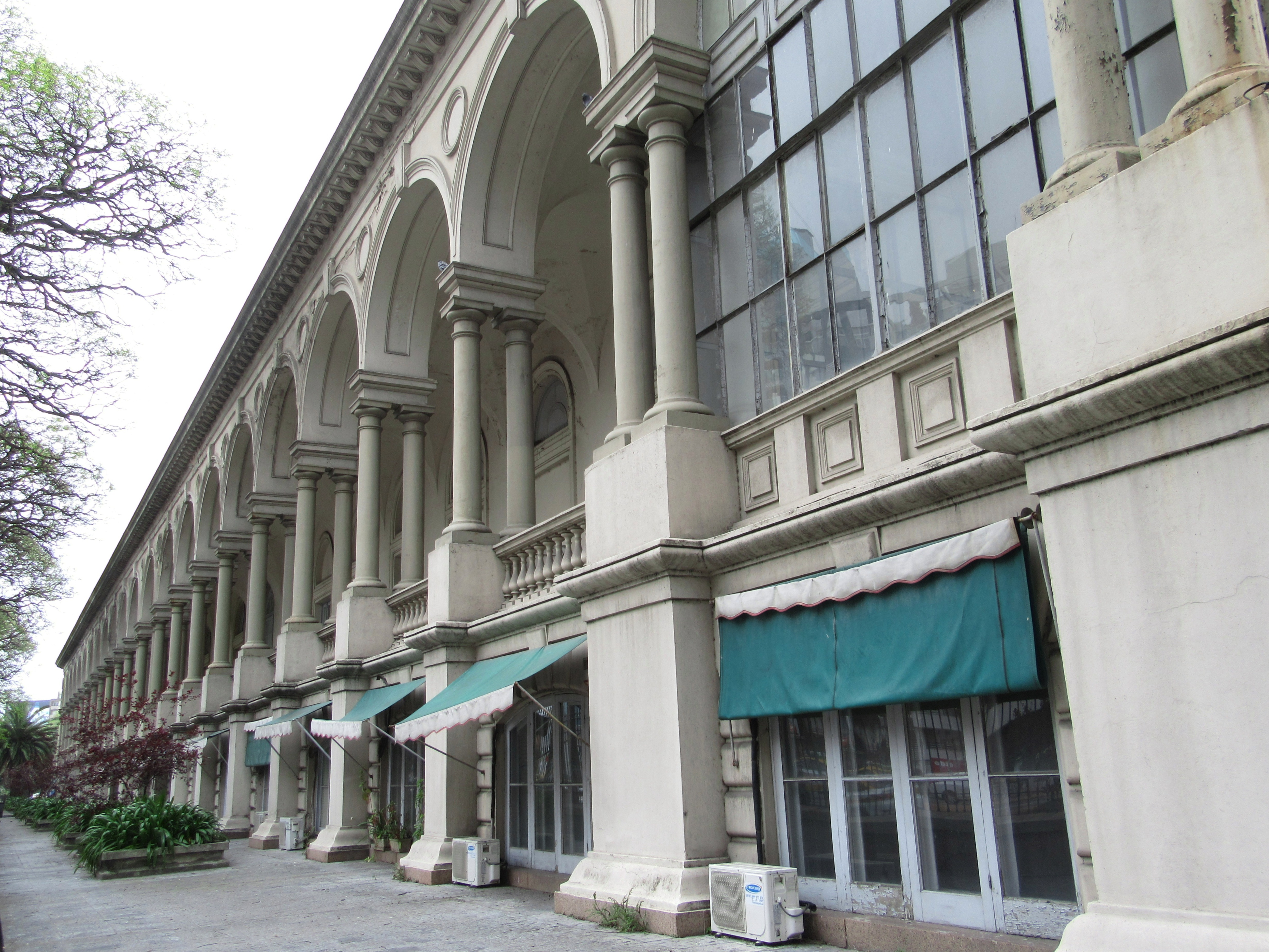 Montevideo